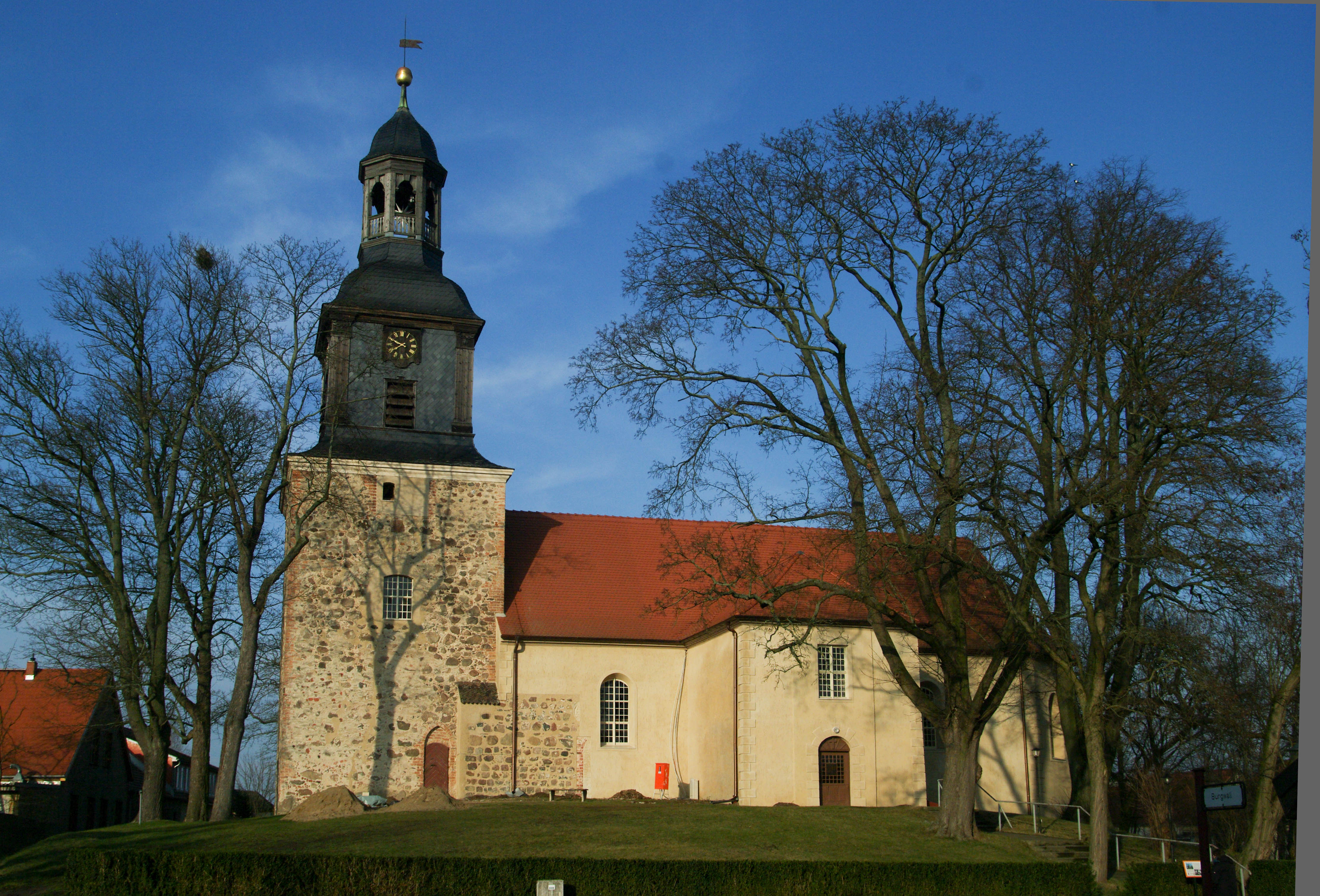 Vehlefanz, Brandenburg, Germany in winter